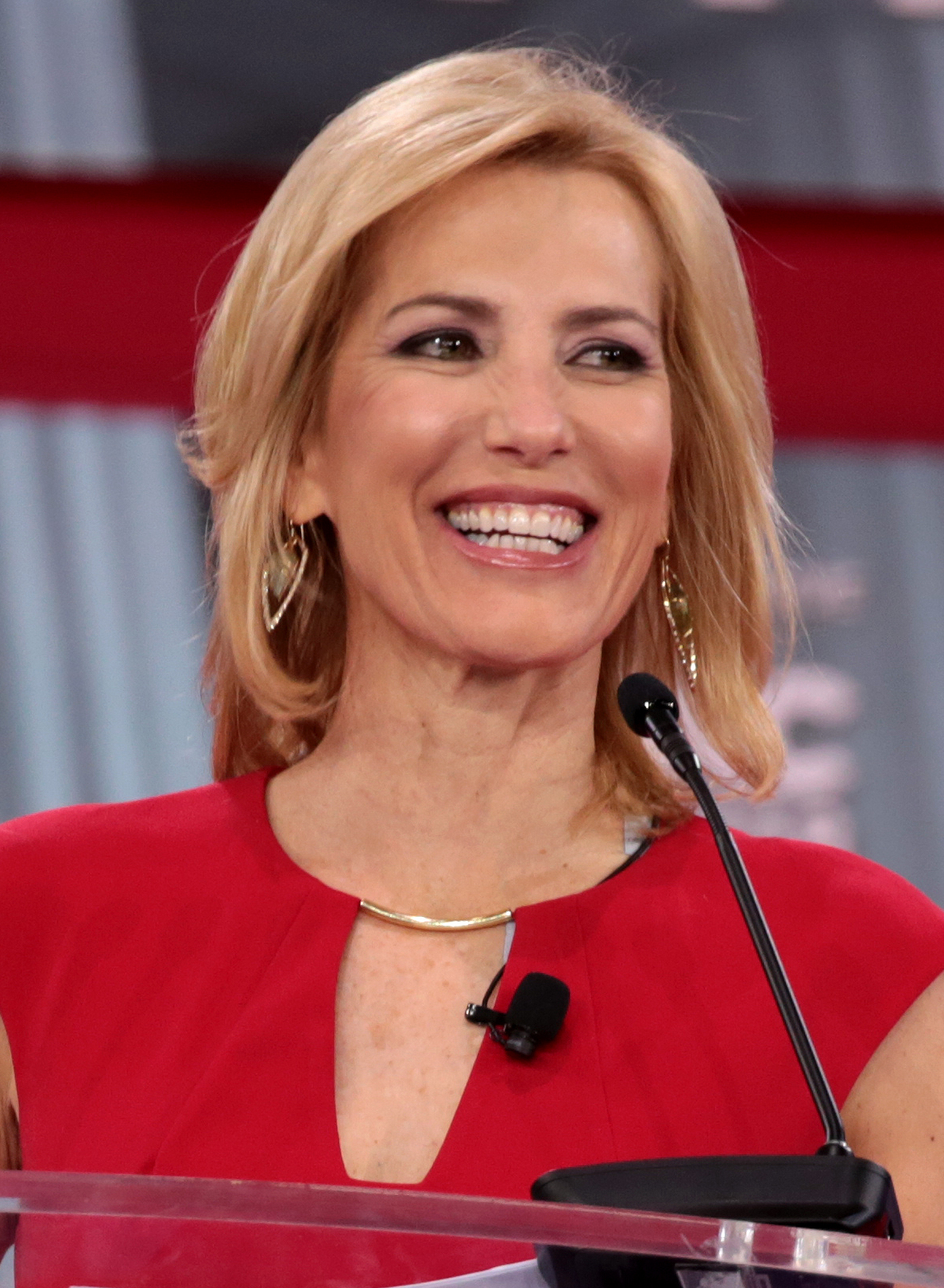 Laura Ingraham speaking at the 2018 Conservative Political Action Conference (CPAC) in National Harbor, Maryland.